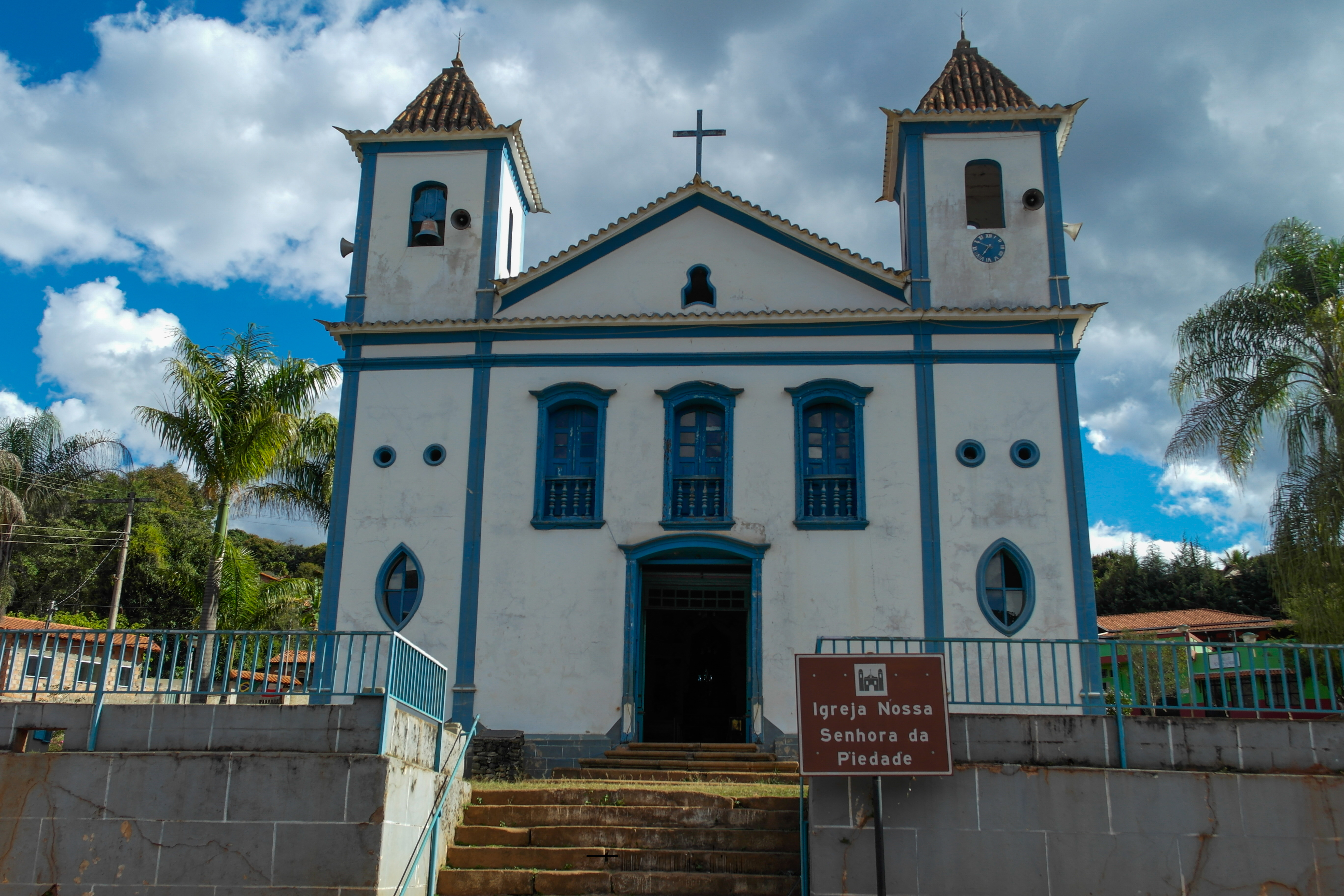 Brumadinho - State of Minas Gerais, Brazil